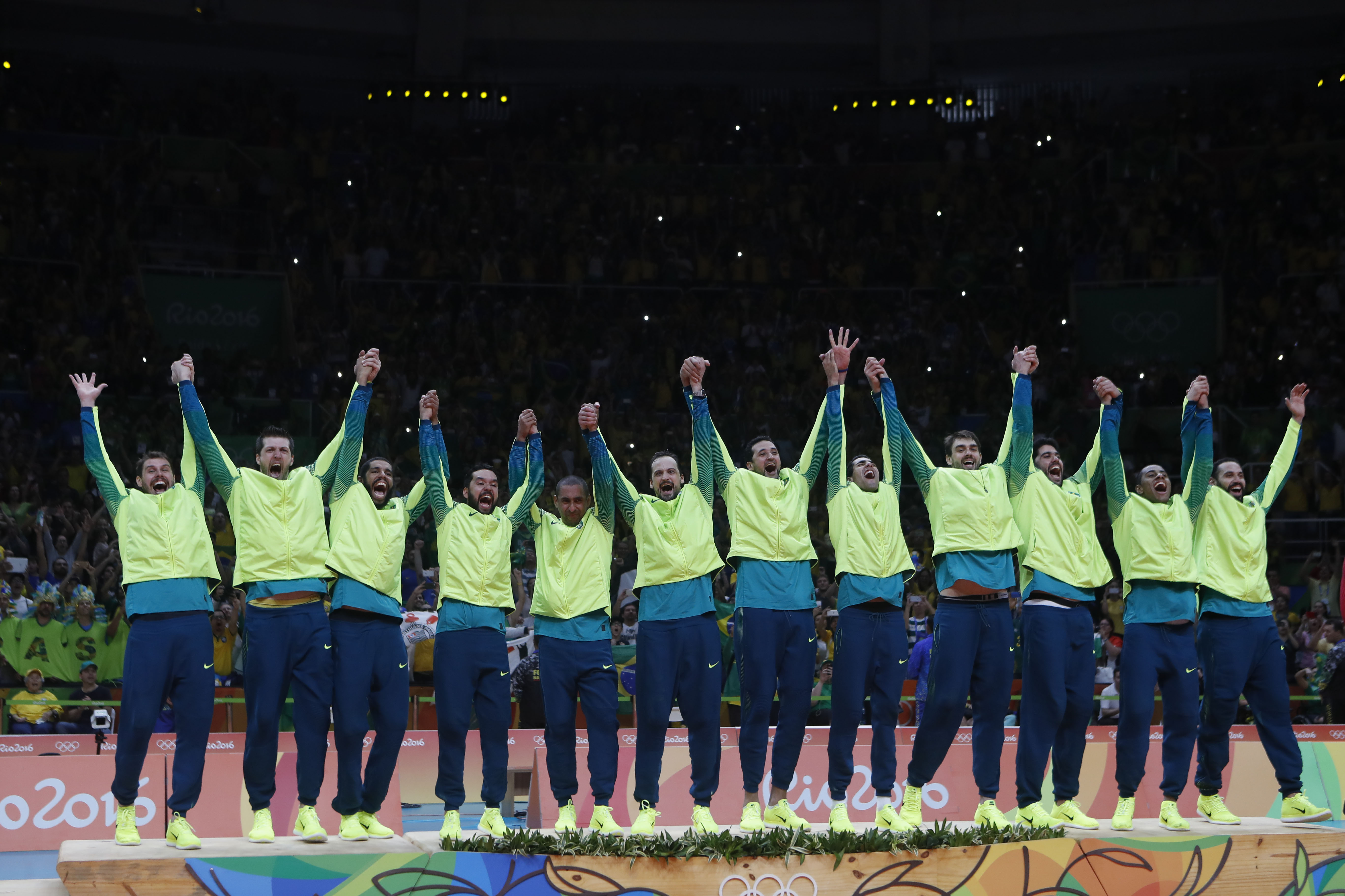 Rio de Janeiro - Seleção brasileira de vôlei ganha medalha de ouro ao vencer a Itália na final dos Jogos Olímpicos Rio 2016 no Maracanãzinho (Fernando Frazão/Agência Brasil)